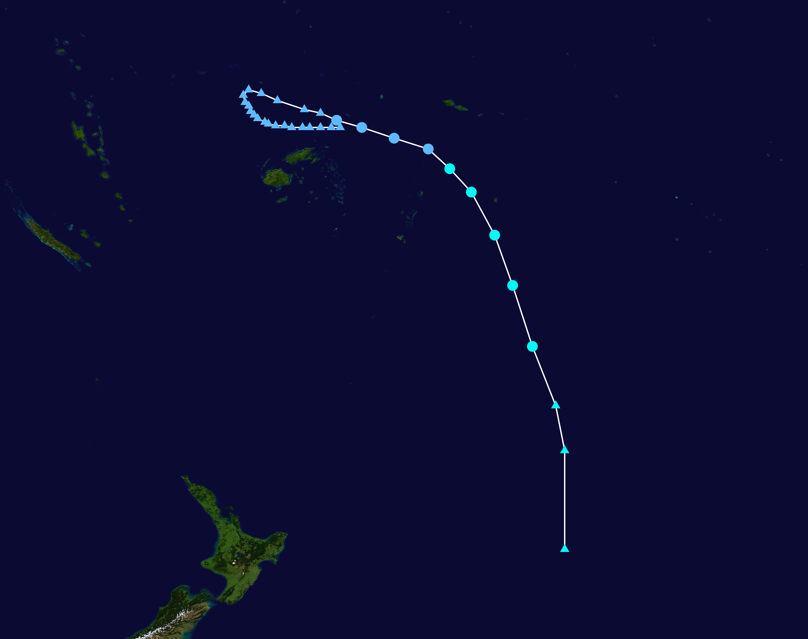 Cyclone Tam (2006) track. Uses the color scheme from the Saffir-Simpson Hurricane Scale.